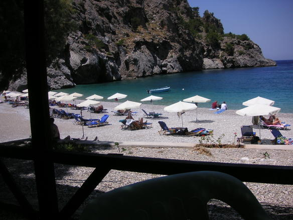 Kárpathos. Achata (Ahata) Beach, Kárpathos.